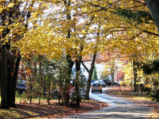 Ornamental plants